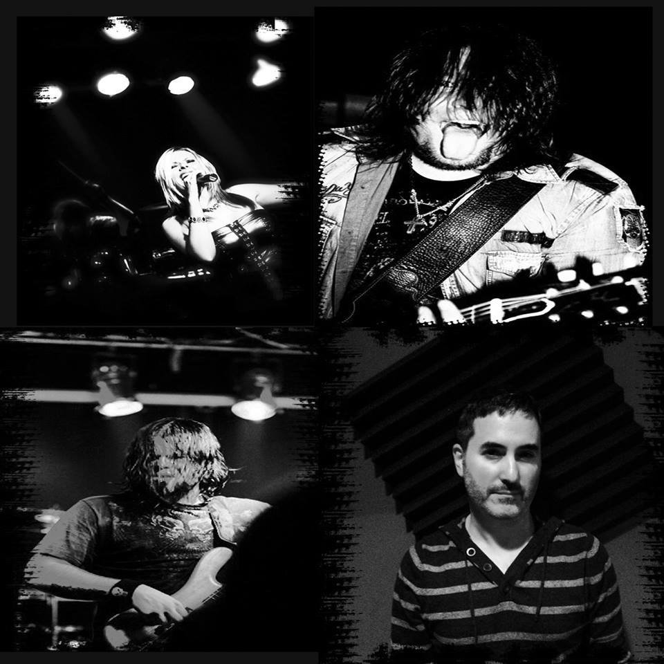 Hydrogyn -Members Julie Westlake-Jeff Westlake-Chris Sammons-John Cardilino -Ashland , Ky Other information Purpose for historical account of Hydrogyn-Ashland , Ky Project -20 years in the making